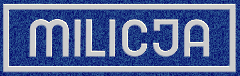 Field uniform patch